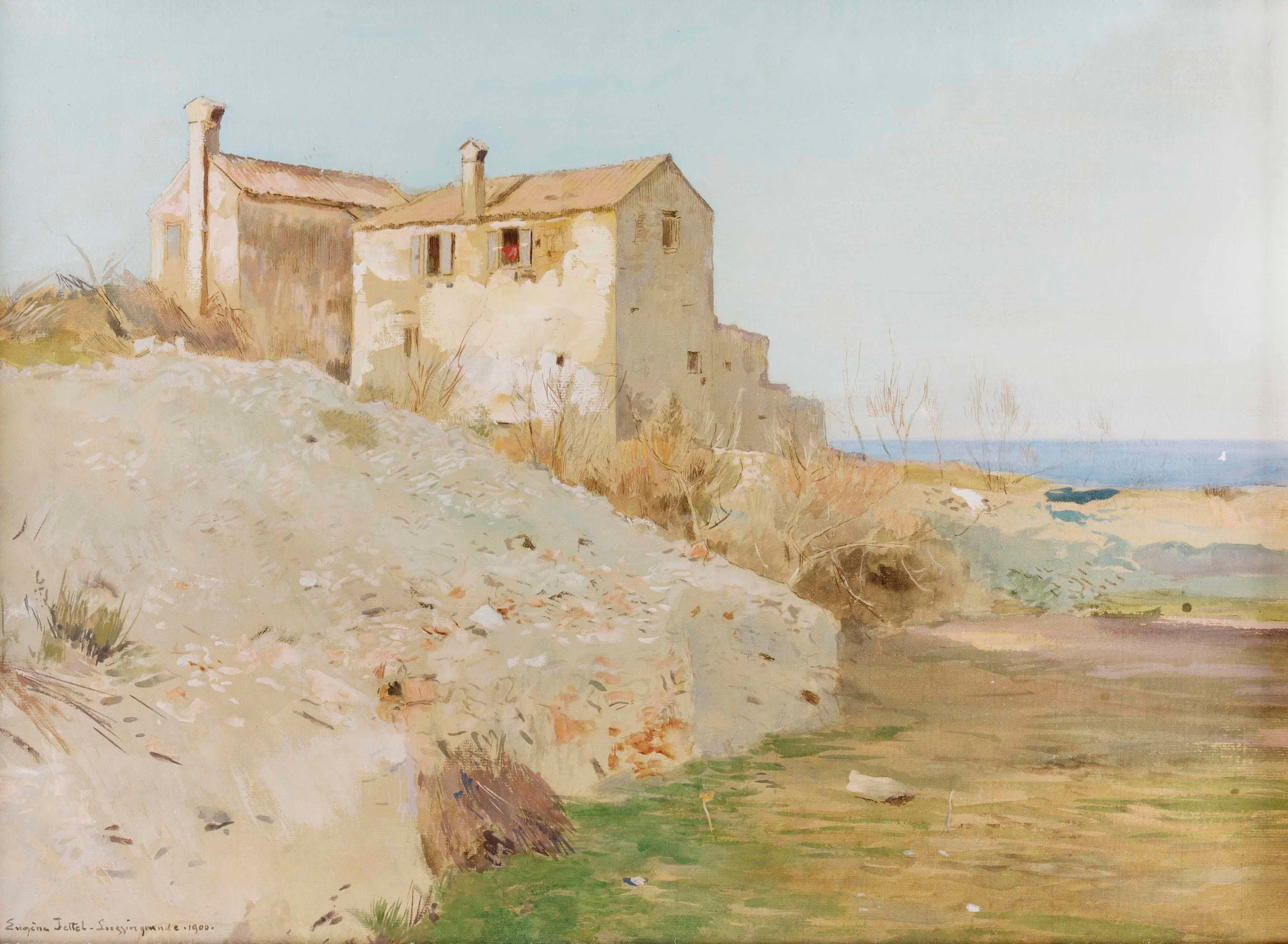 House on the Coast. Gouache on paper, ca. 45 x 60 cm. Signed and dated Eugène Jettel – Lussingrande 1900